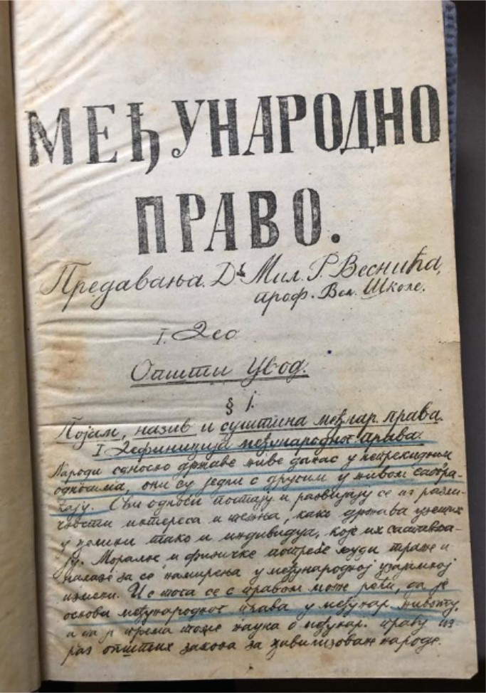 "International Law" ("Međunarodno pravo") by Milenko Radomar Vesnić. A textbook used in The Great School (Velika škola) in The Principality of Serbia. It can be found in the Society for Culture, Art and International Cooperation Adligat in Belgrade, Serbia. Српски (ћирилица): „Међународно право", предавања Миленка Радомара Веснића, уџбеник за Велику школу. Налази се у Удружењу за културу, уметности и међународну сарадњу „Адлигат” у Београду.